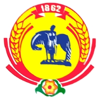 Coat of arms of Giaginskaya, Adygea, Russia.